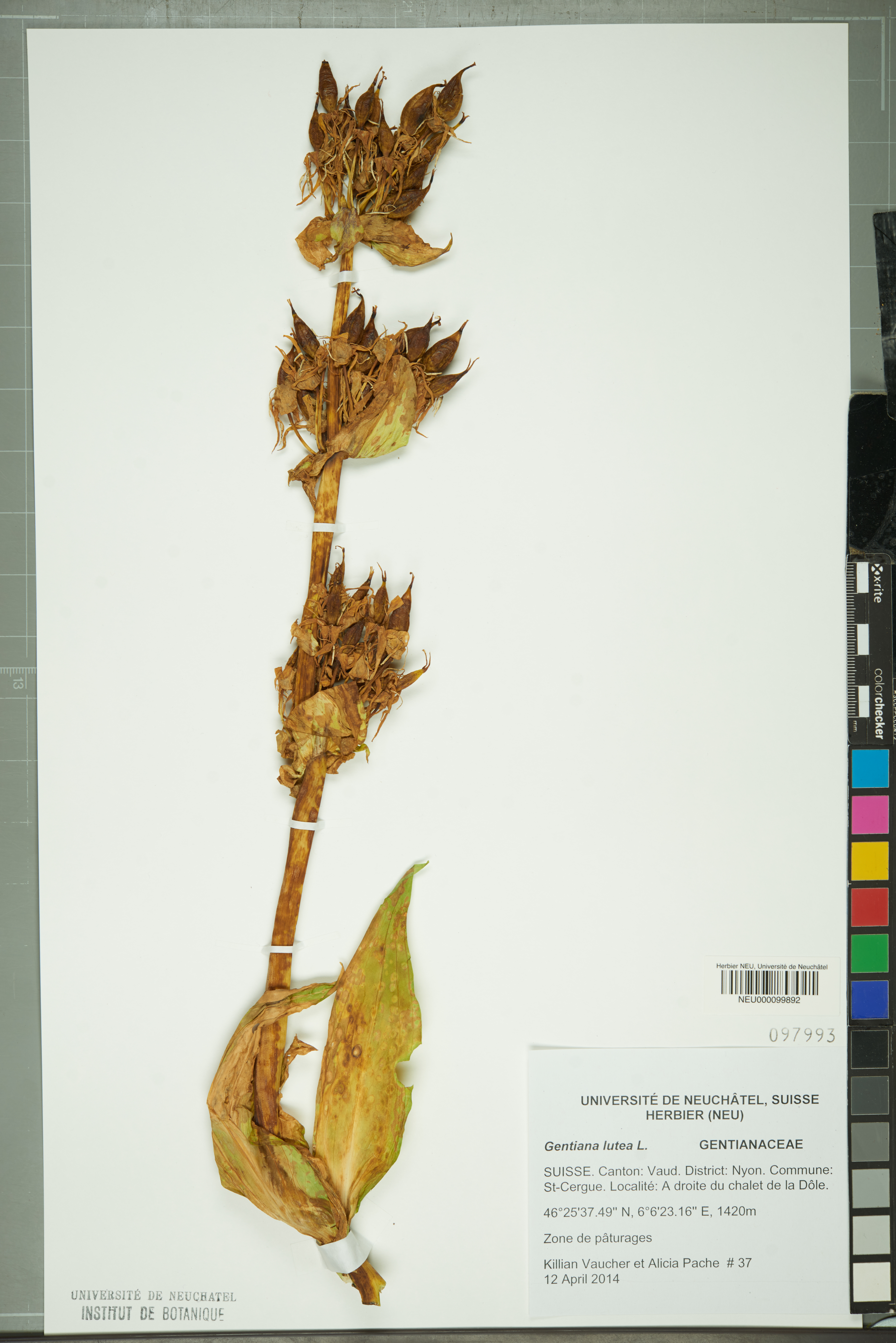 Dried pressed specimen of Gentiana lutea